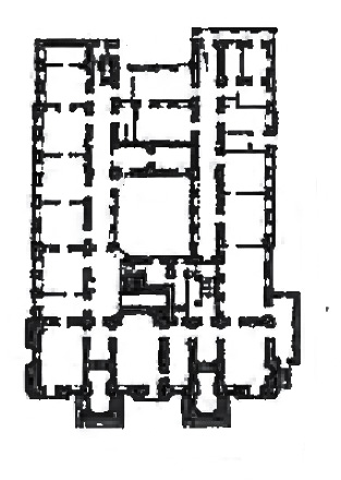 Floorplan of first floor of Debur's palace